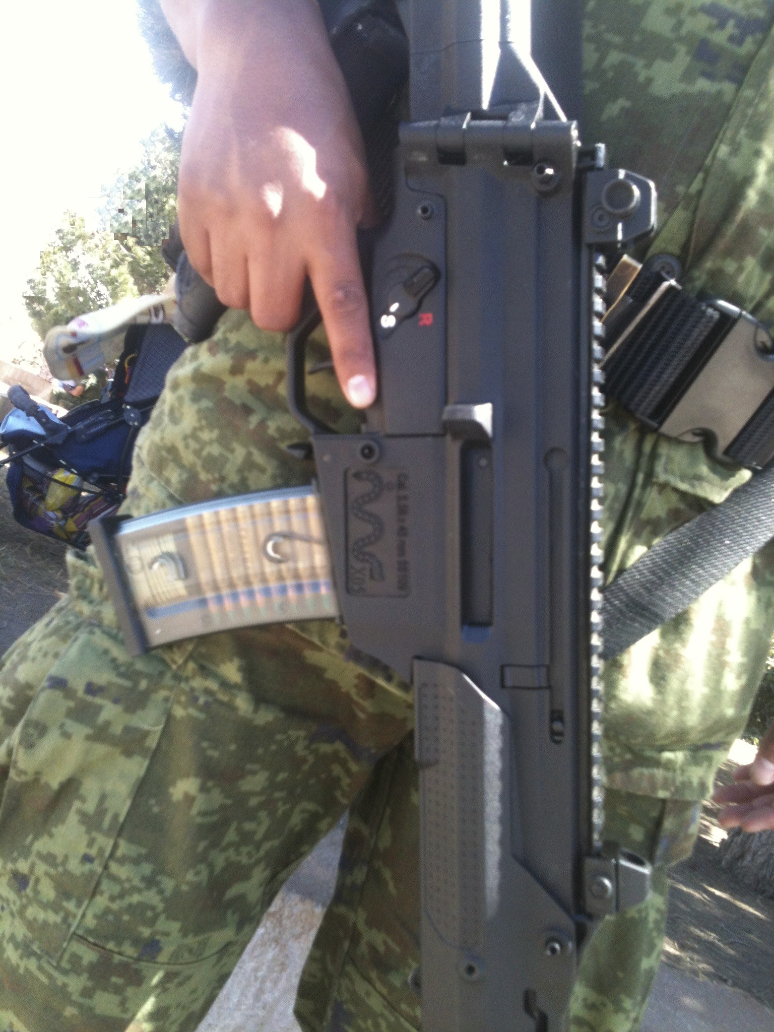 Mexican FX-05 "Fire-serpent" assault rifle.